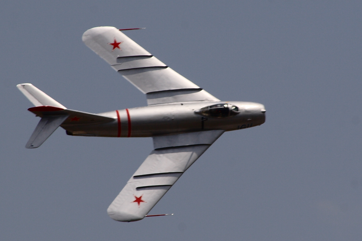 Randy Ball's MiG-17F flying over Scott Airforce Base, Illinois.